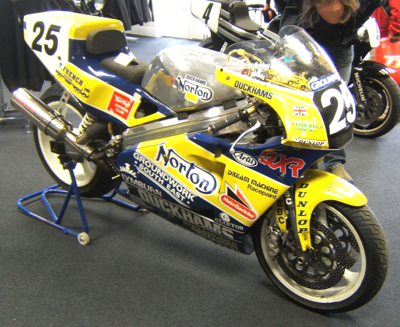 Ian Simpson's 1994 rotary-engined Crighton Norton displayed at Nobles Park (rear of TT Grandstand) Douglas, Isle of Man in 2009